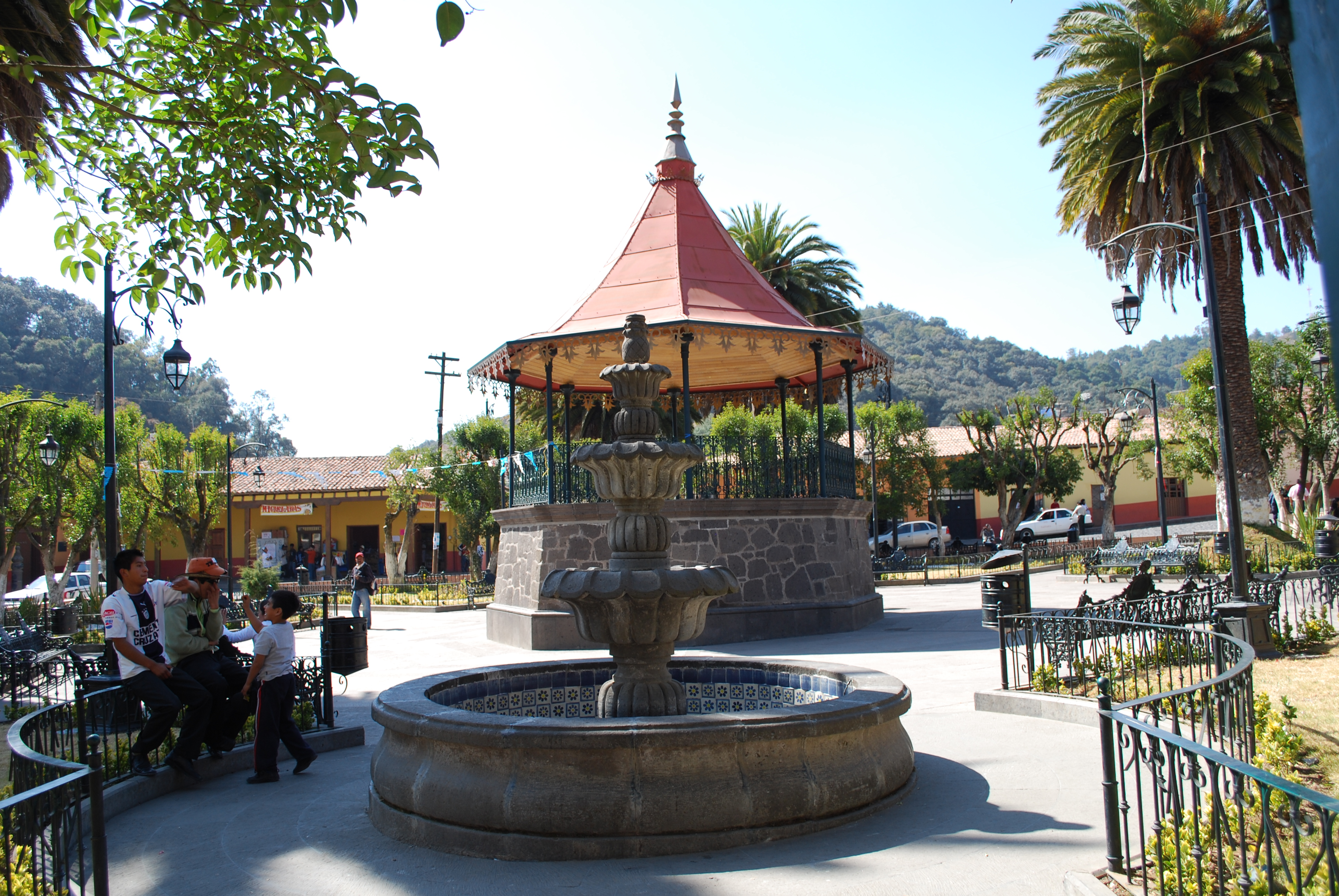 Kiosk in the center of Tlalpujahua, Michoacan